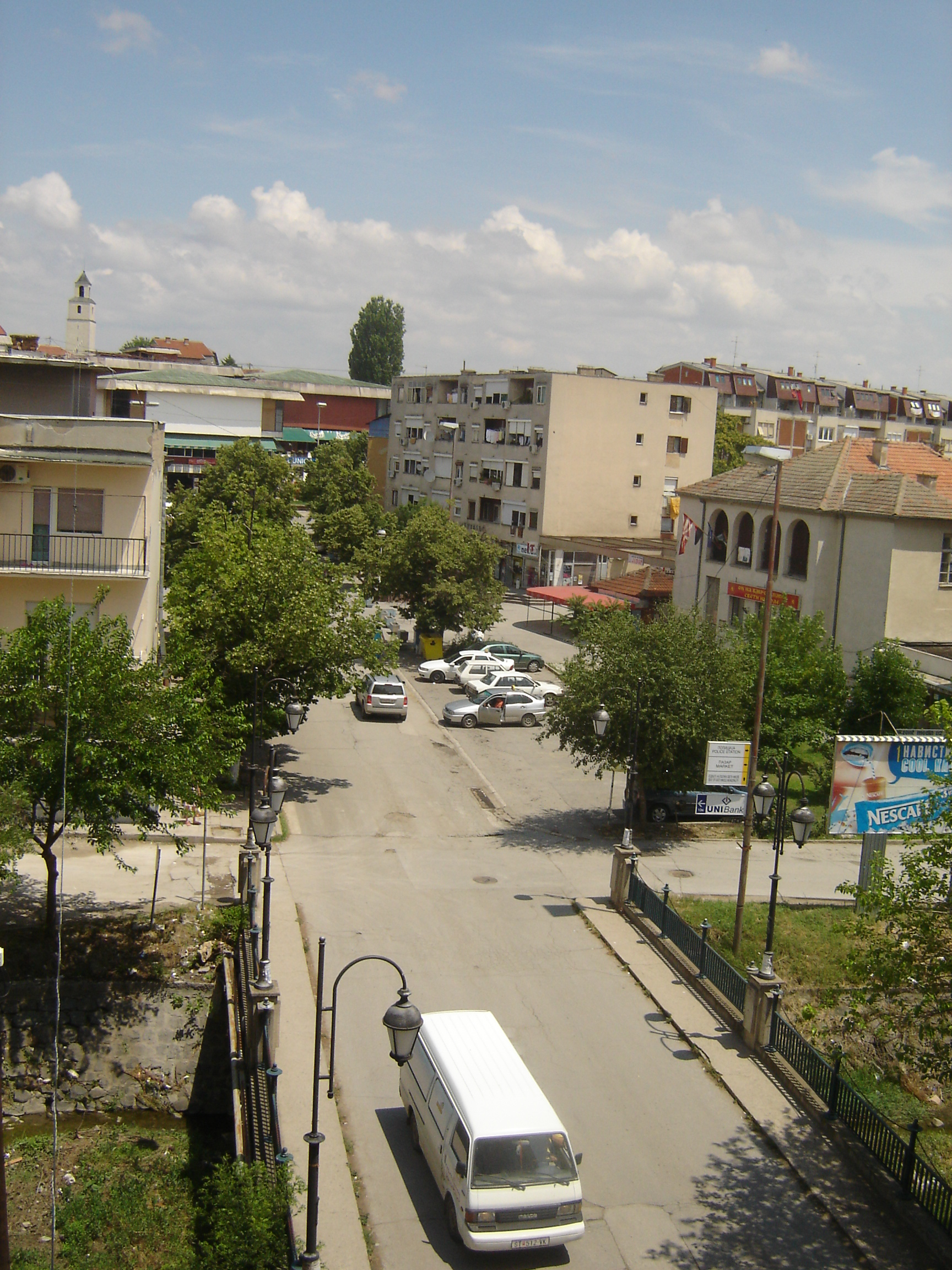 Sveti Nikole town center